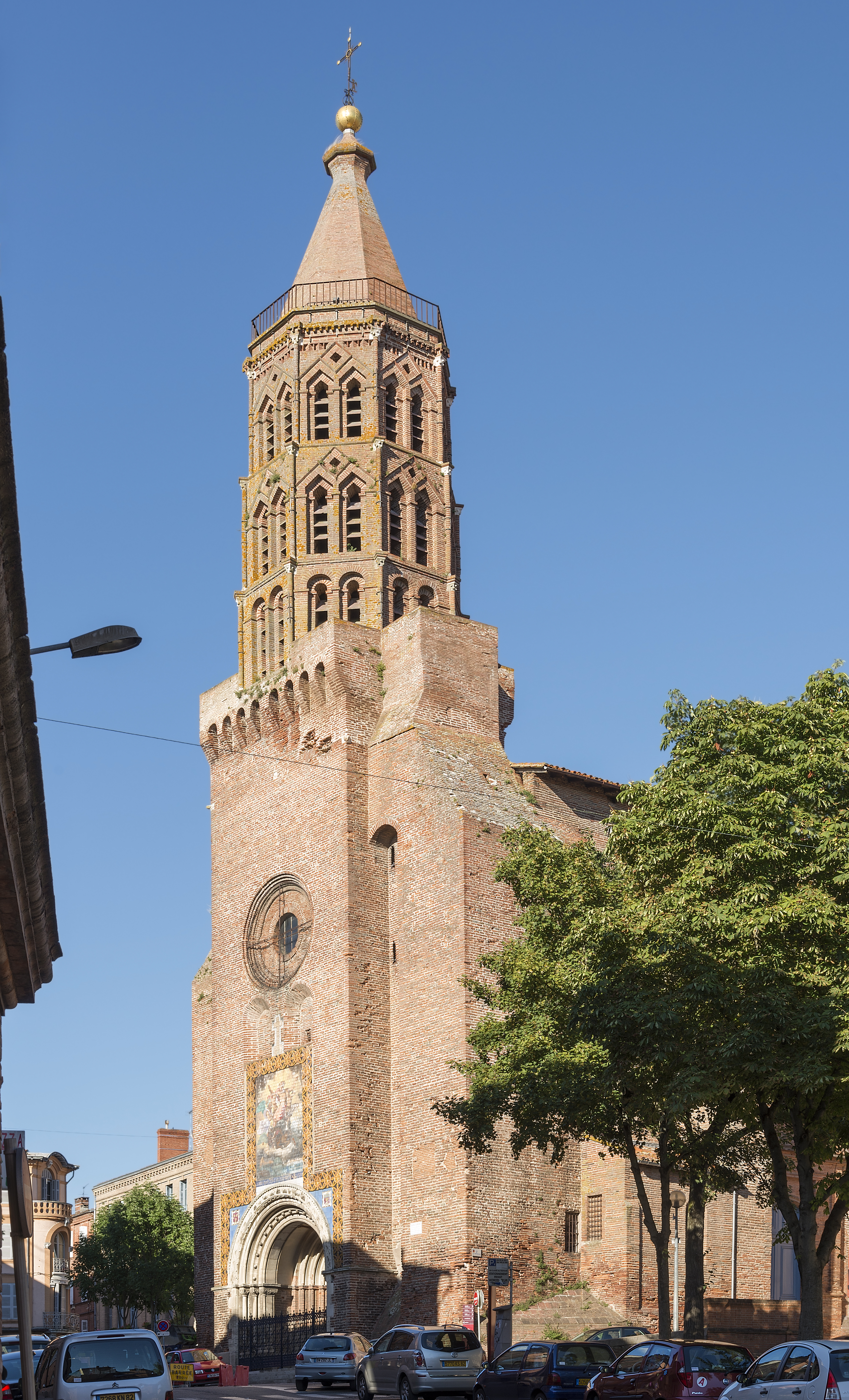 The fortified church of Saint-Jacques of the thirteenth century. Montauban, Tarn et Garonne, France. Facade and bell tower